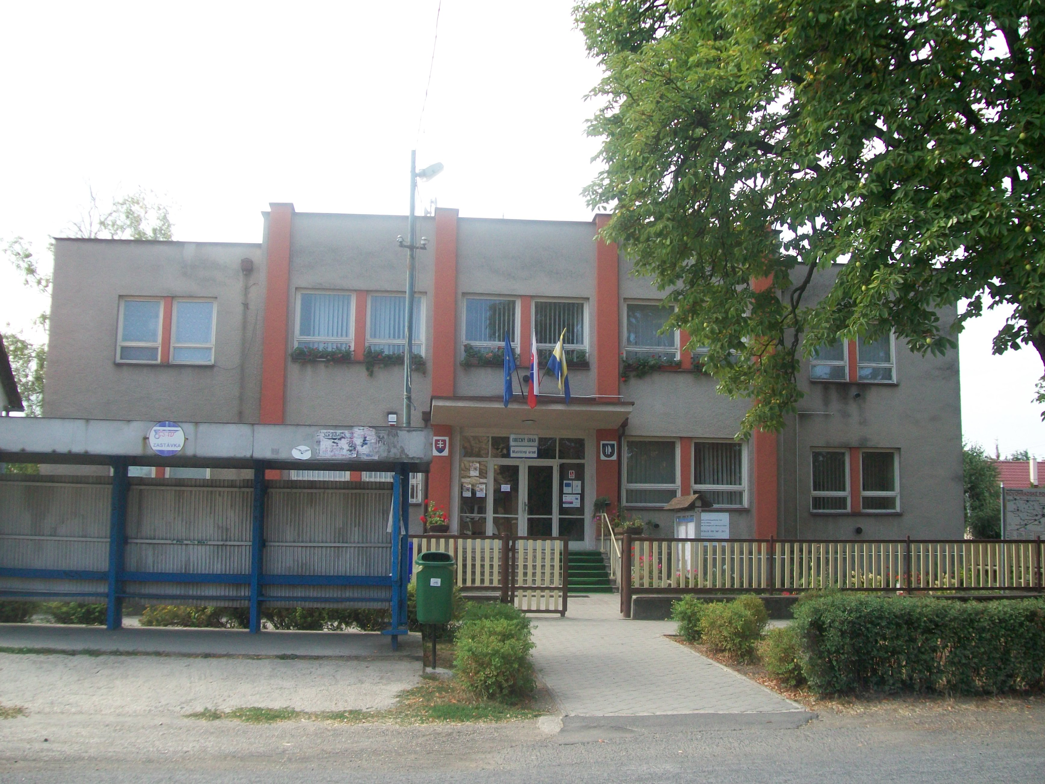 Municipal office in TomášovceSlovenčina: Obecný úrad v Tomášovciach